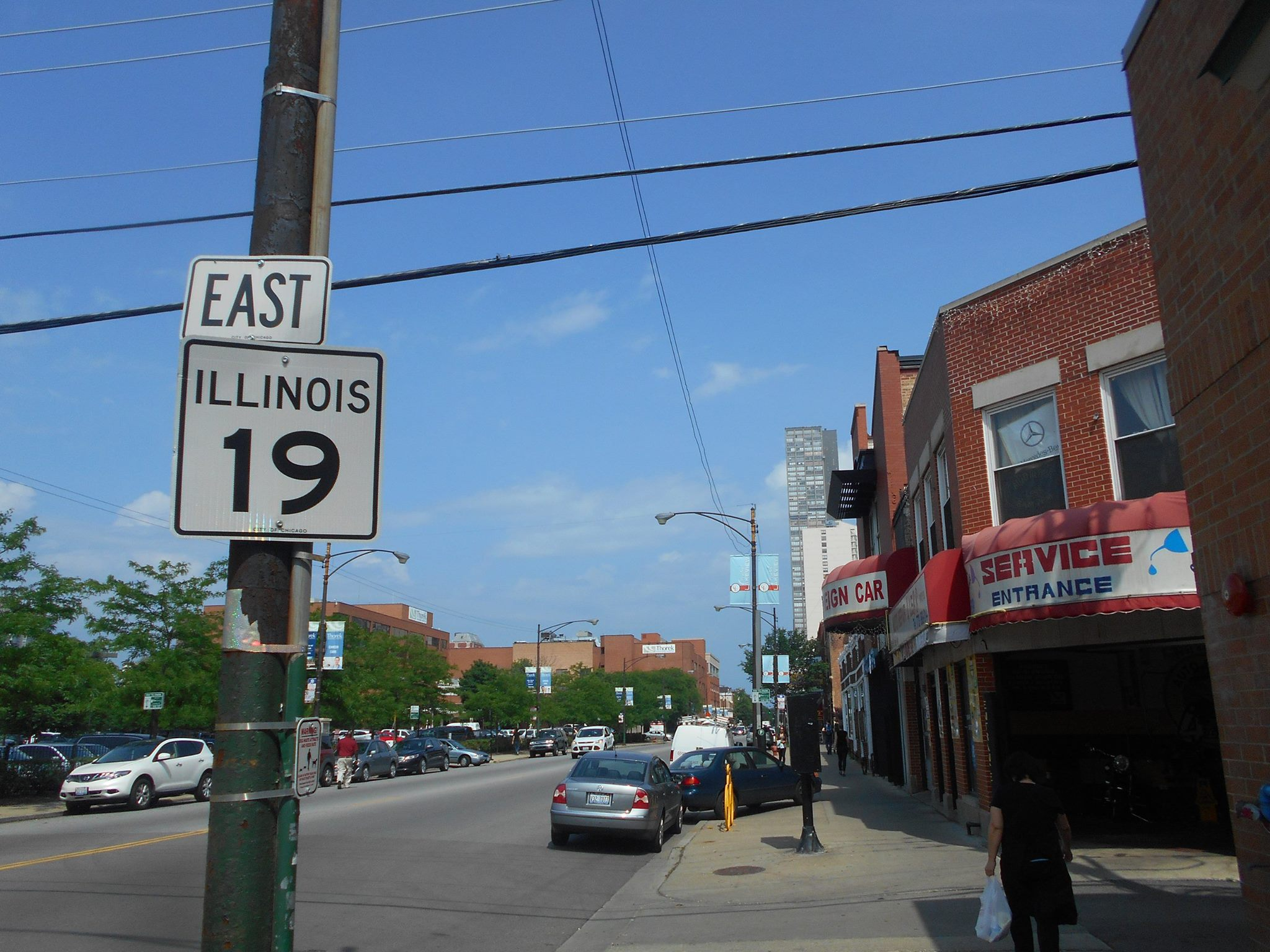 Illinois Route 19 eastbound along the 900 block of West Irving Park Road, approaching U.S. Route 41 (Lake Shore Drive, 4 blocks east) in Chicago, Illinois.